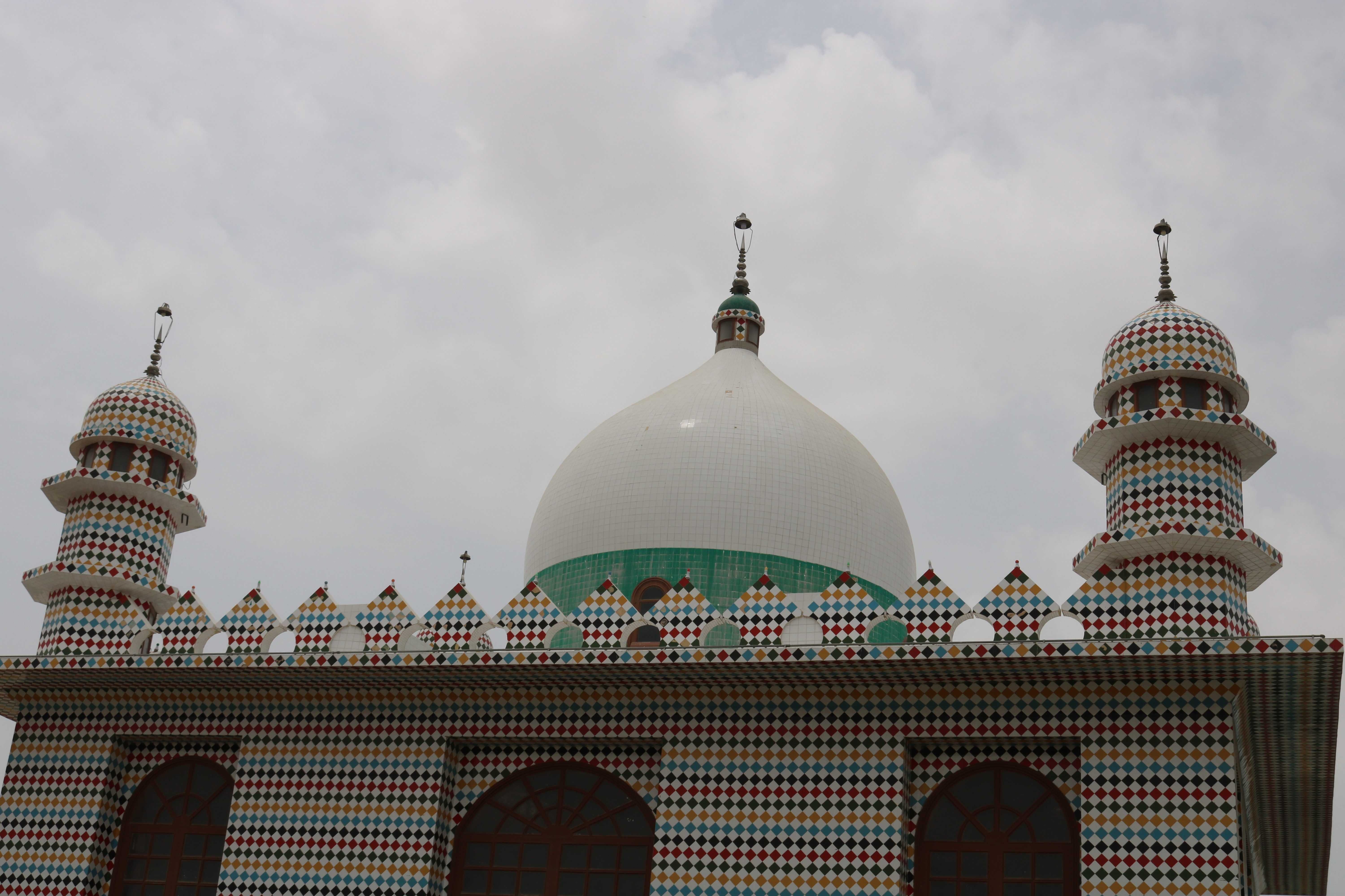 Shrine of Syed Nadir Ali Shah